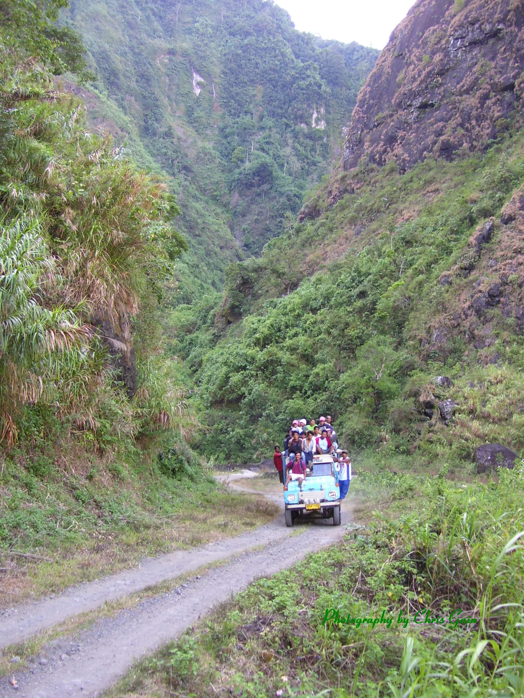 Batong Buhay jeepney near start of its once a day 5 hour journey in the Cordillera Central to Tabuk, capital of Kalinga province, Philippines.